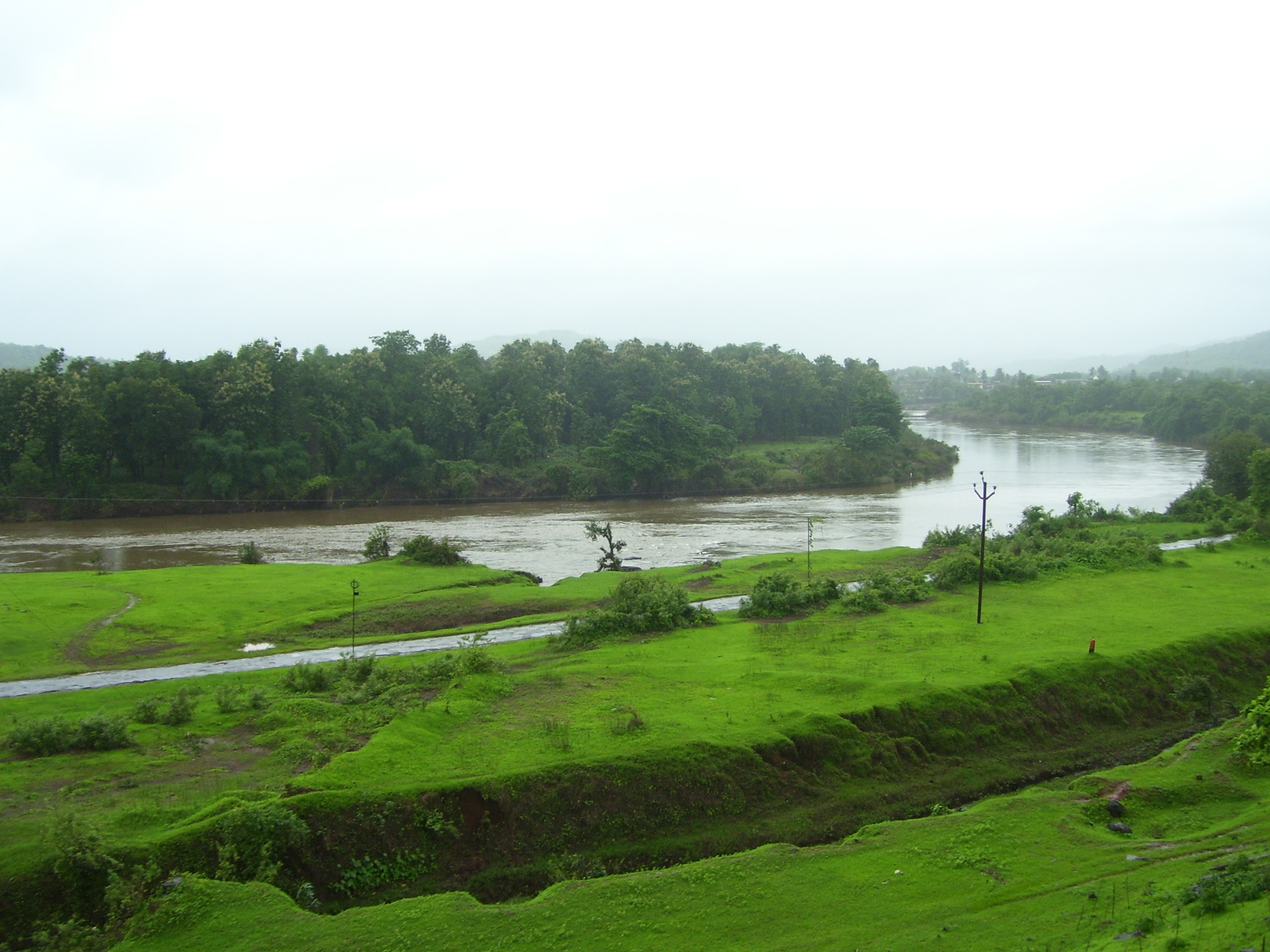 View shot from train running through Konkan region during monsoon season.